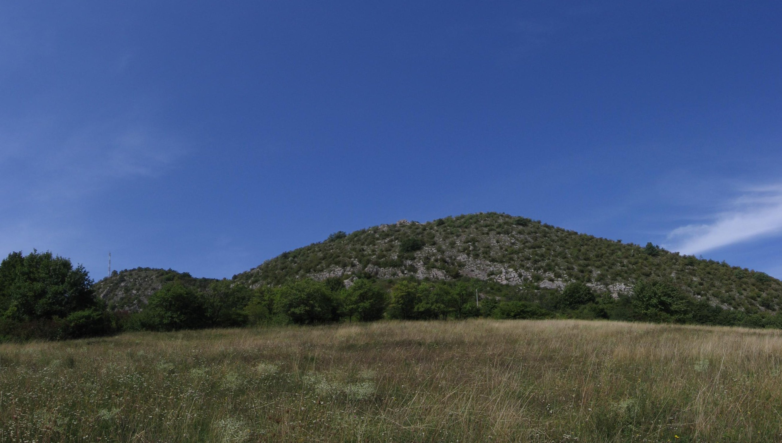 Krasín Klippe (516 m), Biele Karpaty, Trenčín district, Western Slovakia